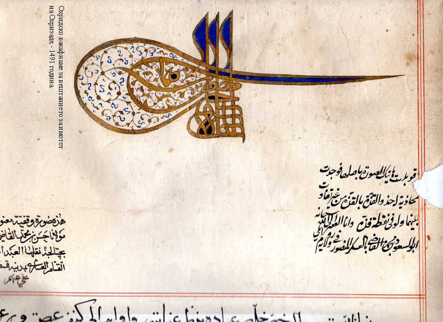 Ohrid vakafname, a bequest of the Ohrizade's estate.